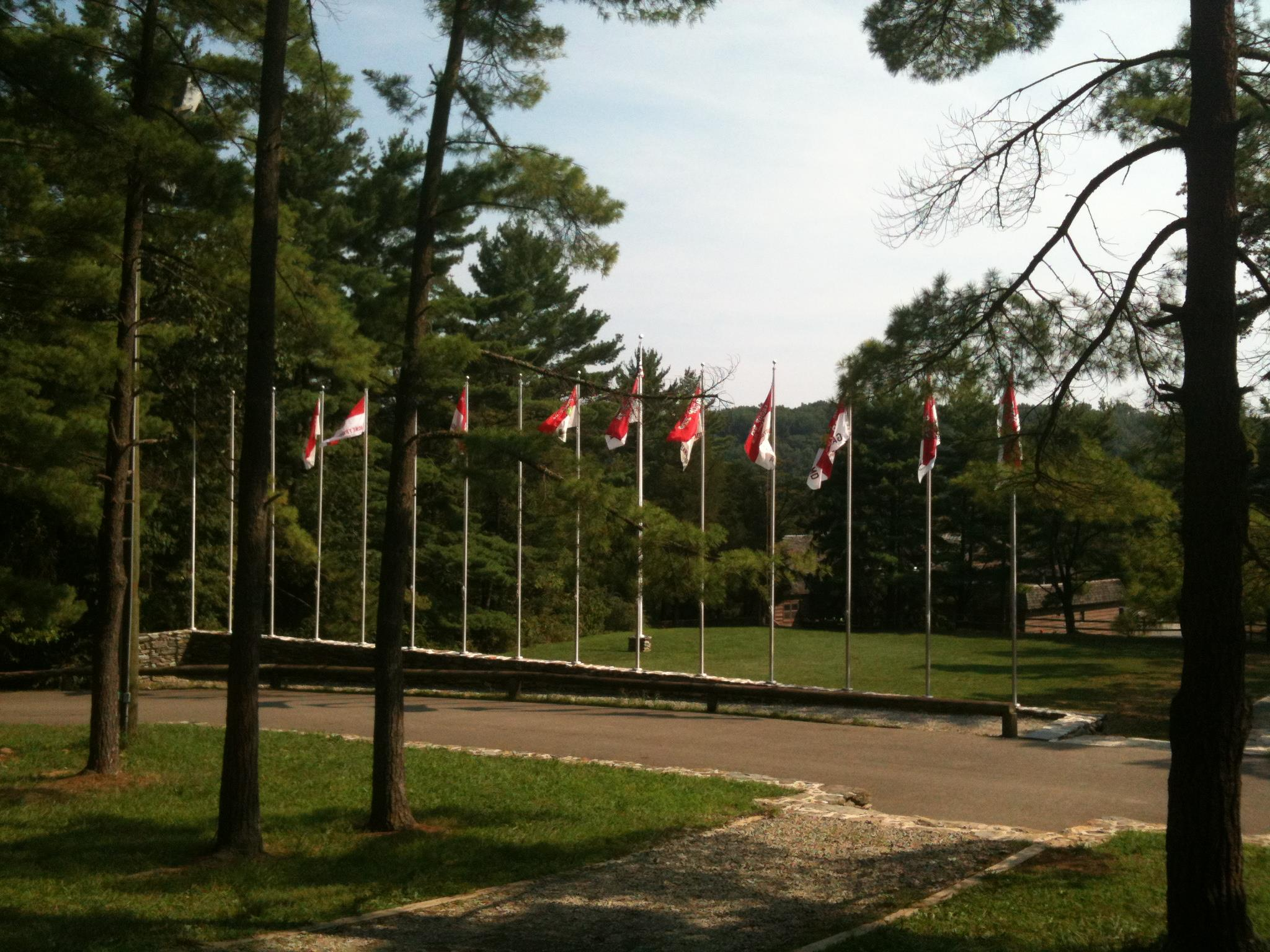 Horseshoe Scout Reservation flags